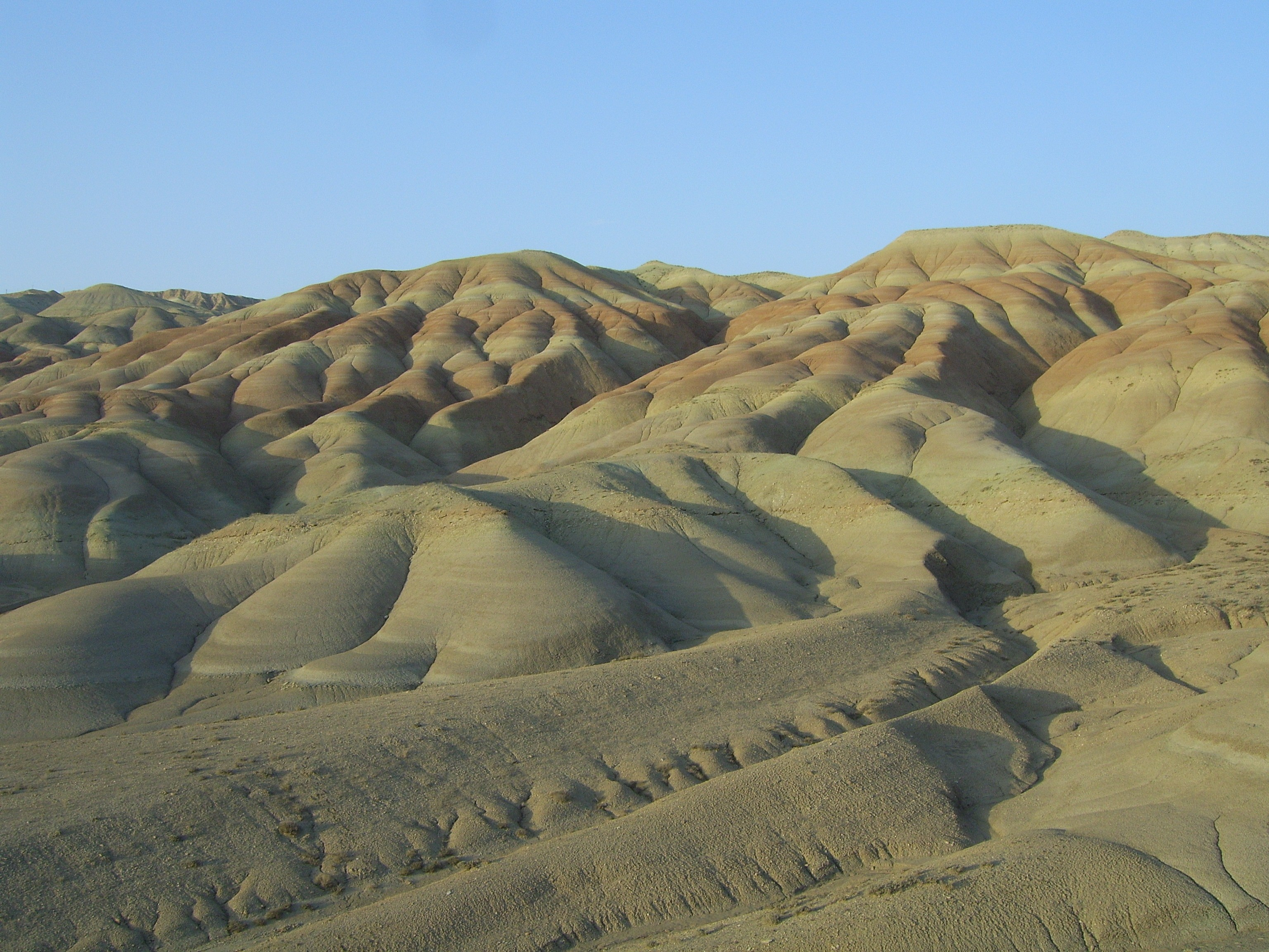 Orta Araz təbii vilayətində - dağ platosunda yarım səhra